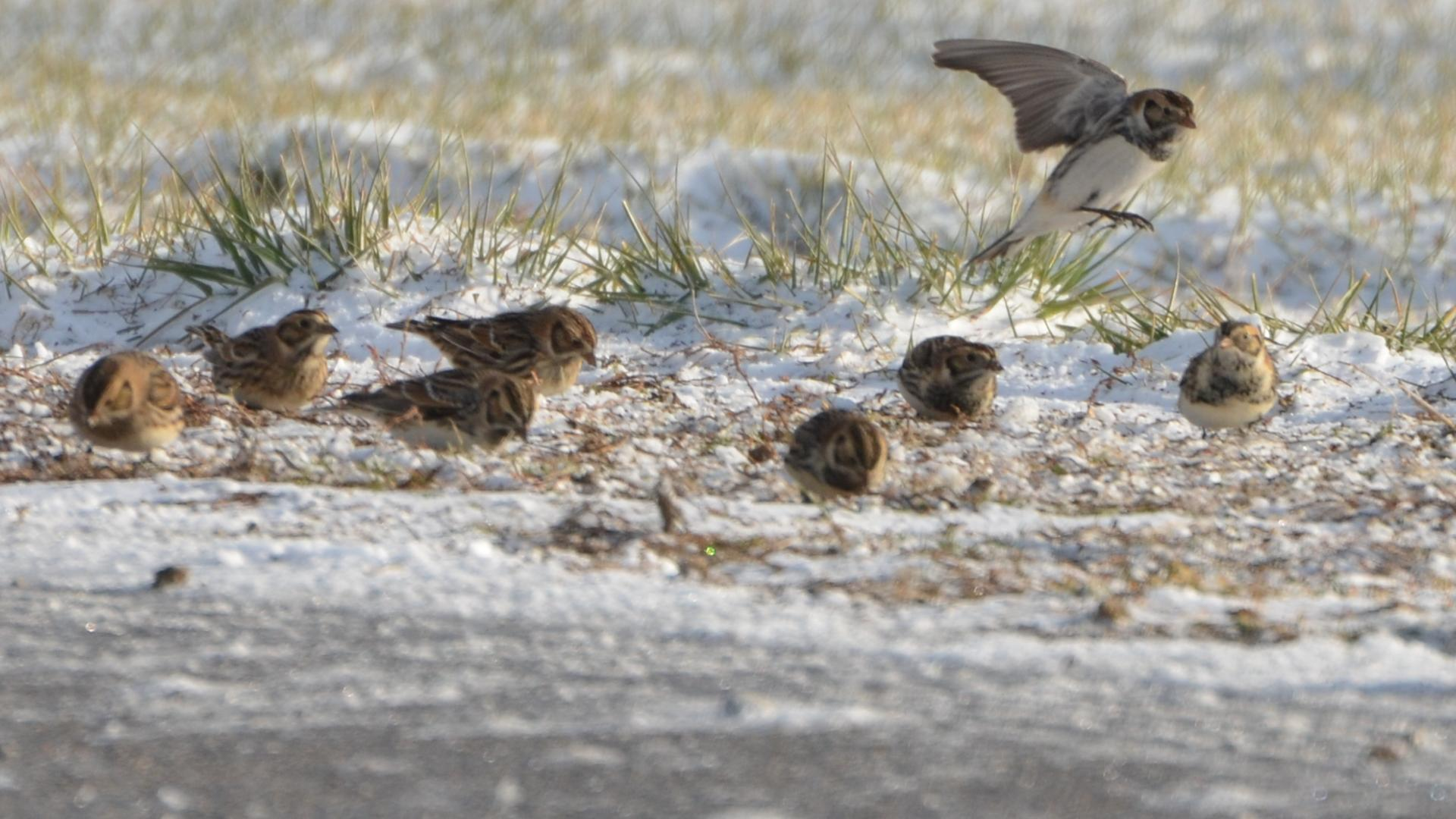 Riverlands Migratory Bird Sanctuary in Alton MO on 12/29/12